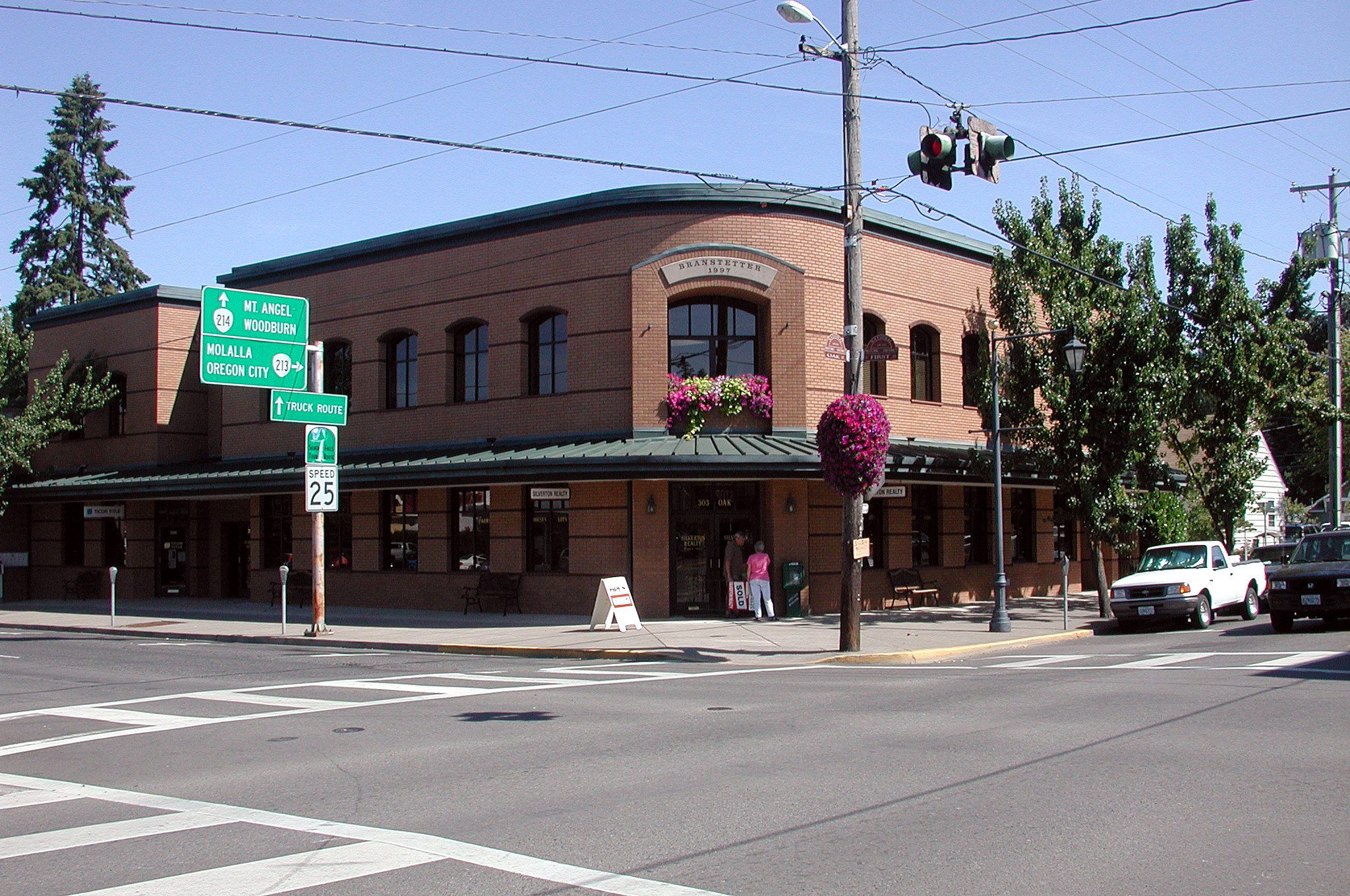 Branstetter Building in Silverton, Oregon, United States.